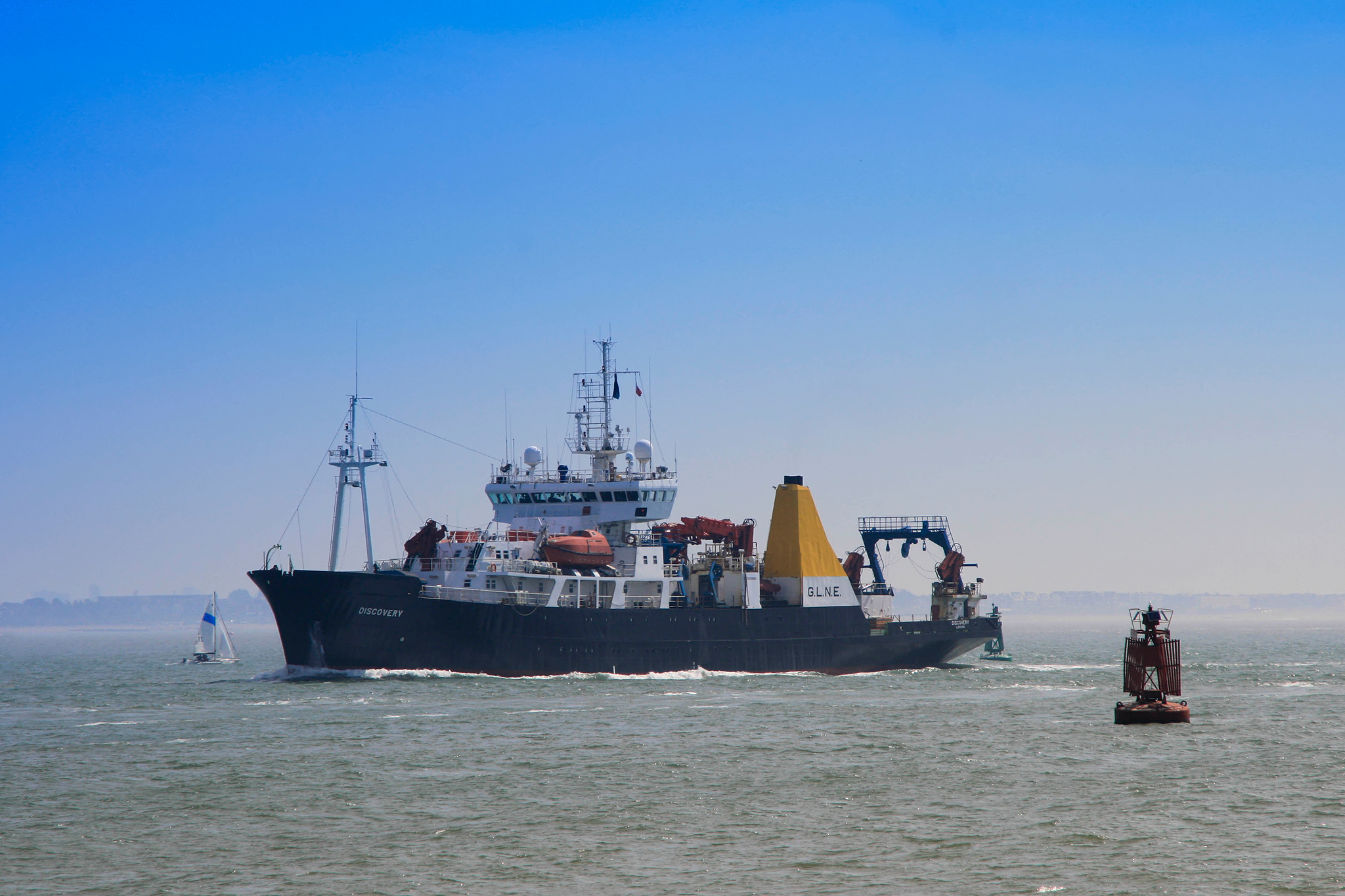 Oceanographic research vessel RRS Discovery inbound to the National Oceanographic Centre, operated by the UK Natural Environment Research Council, at Southampton Docks, on 22 April 2011. Image uploaded by me User:George.Hutchinson from a photograph taken by and supplied by Brian Burnell. Wikipedia editors are reminded that the copyright remains with the photographer, and that the terms of the Creative Commons licence; that allow editors to reuse this image apply to Wikipedia editors also, as they do to other re-users of this image. Breaches of the licence terms are not only unlawful, but are also antisocial, in that breaches discourage photographers from making their images freely available to everyone without payment. Wikipedia re-users are also reminded of the license terms that derivatives of this image should not imply that the adaptation is endorsed or approved by the author or copyright holder. Neither should derivatives be presented as the creation of the author or copyright holder, while clearly stating that the adaptation is a derivative of the original. Attribution online should be in this format Brian Burnell. On the printed page, a simpler form is acceptable - example: "Image: Brian Burnell". Non-Wikipedia users are requested to advise Brian Burnell of its use other than on Wikipedia.